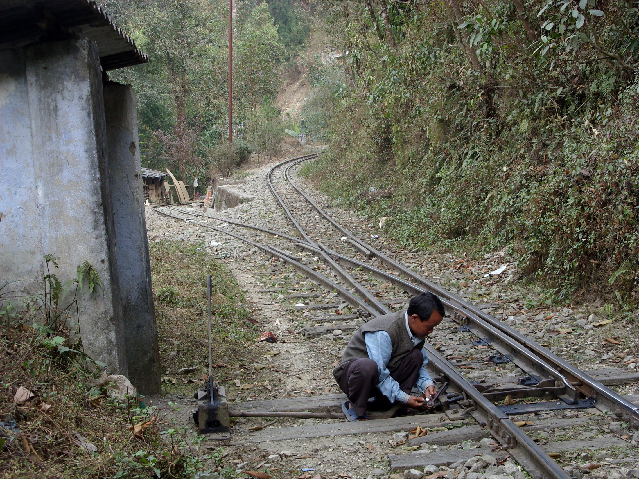 On a Z-reverse of Darjeeling Himalayan Railway.